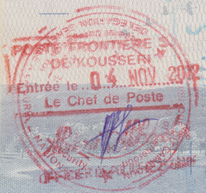 Cameroon entry passport stamp from 2012. Land crossing.